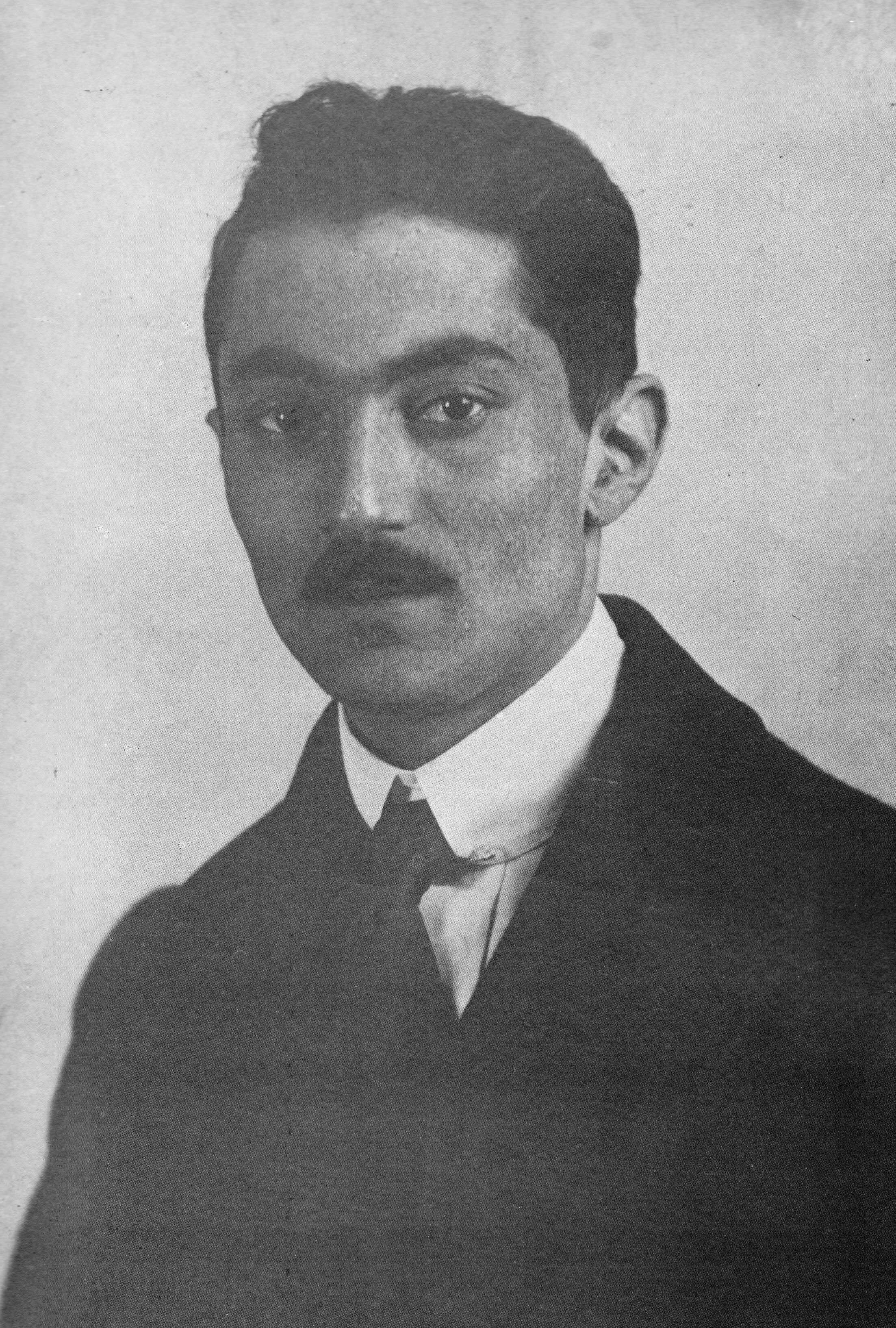 Seyyed Mohammad Ali Jamalzadeh, persian author of short stories, foto taken in Berlin